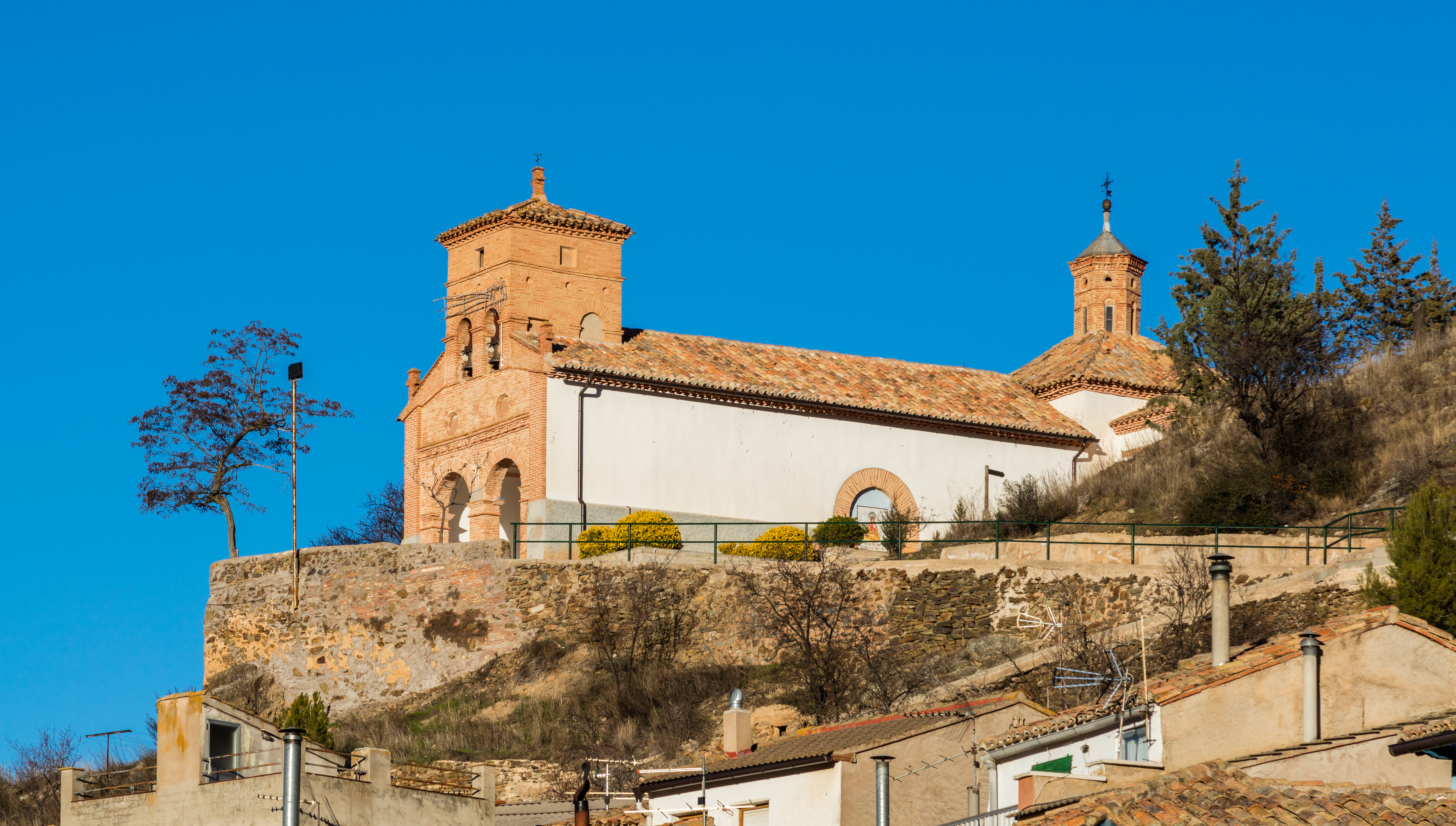 Hermitage of the Lady of the Hill, Castejón de las Armas, Zaragoza, Spain